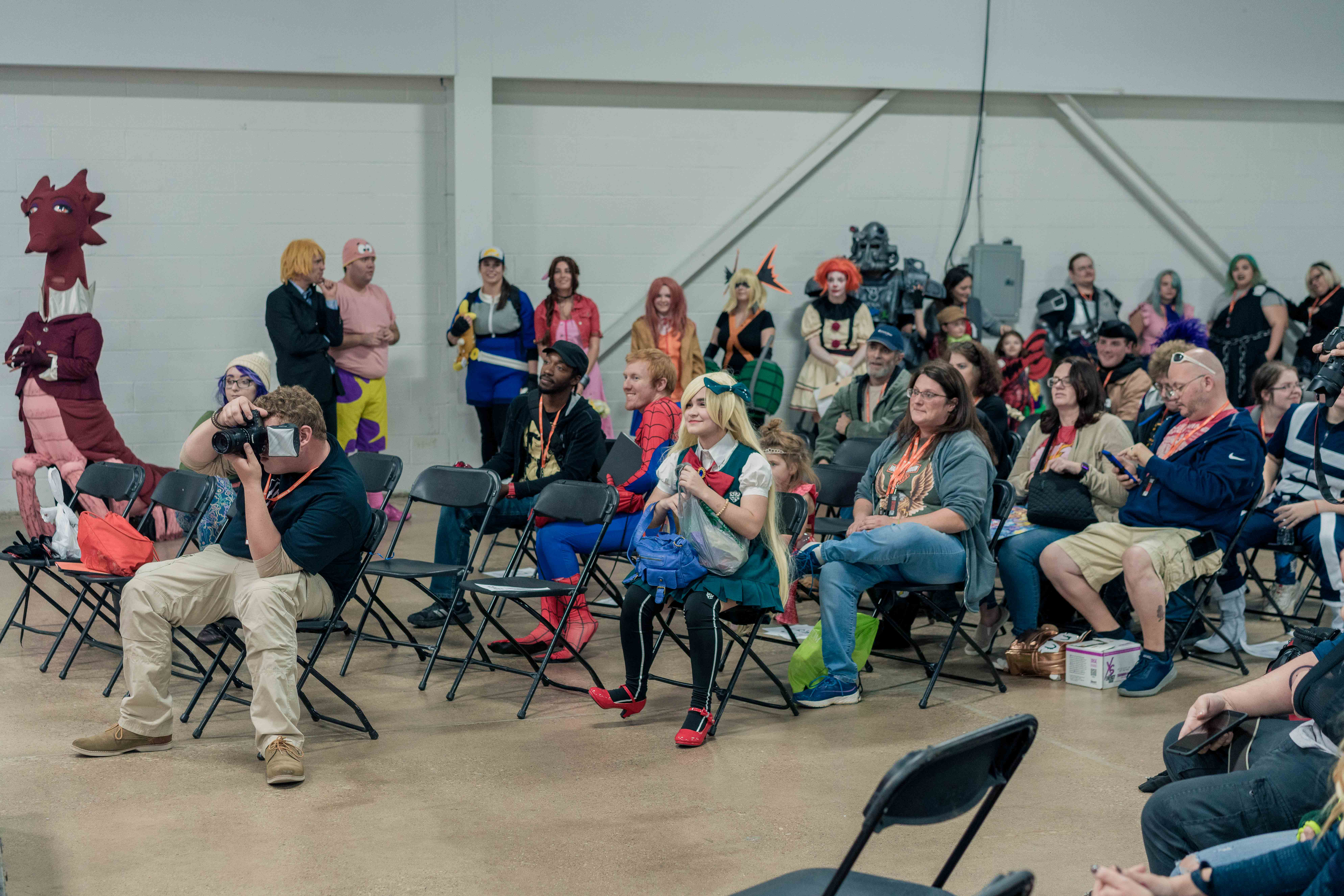 Attendees watching and photographing the cosplay contest at 2018 convention.